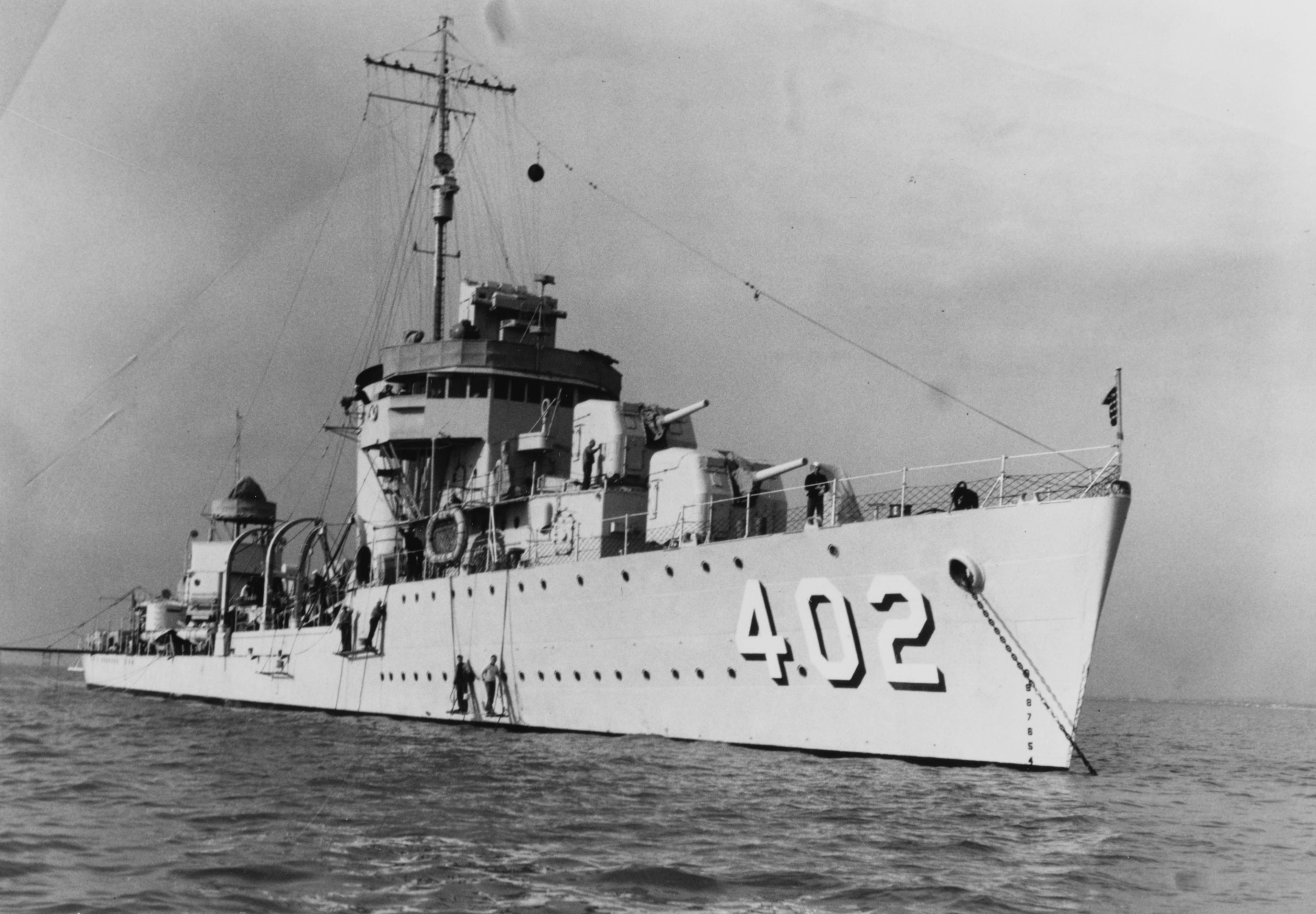 Removed caption read: Photo # NH 101669 USS Mayrant at anchor, circa 1939-1941